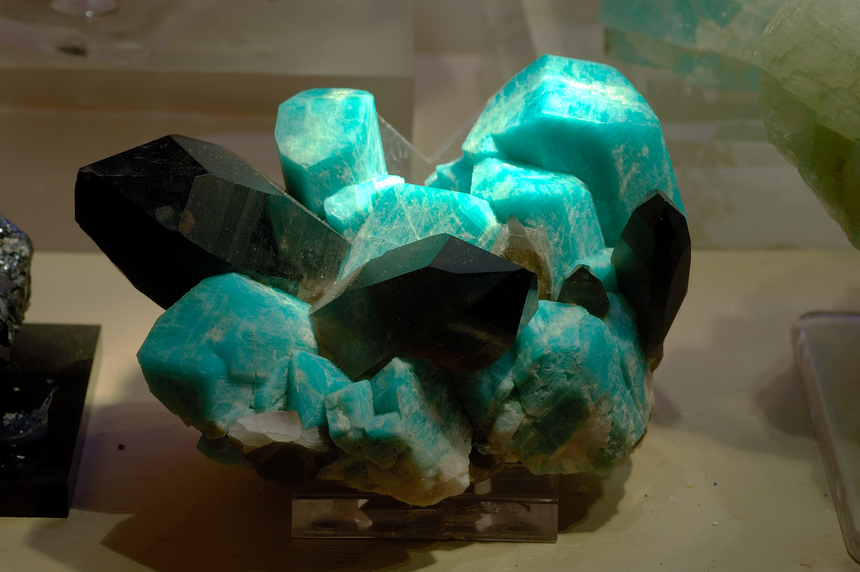 Microcline feldspar variety Amazonite with smoky quartz from the Halpern Mineral Collection, Colorado, USA